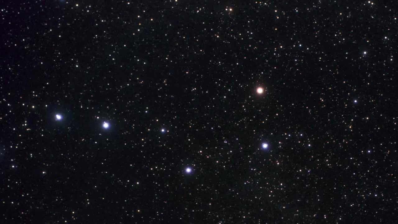 By pushing NASA’s Hubble Space Telescope to its limits, an international team of astronomers has shattered the cosmic distance record by measuring the farthest galaxy ever seen in the universe. This surprisingly bright infant galaxy, named GN-z11, is seen as it was 13.4 billion years in the past, just 400 million years after the Big Bang. GN-z11 is located in the direction of the constellation of Ursa Major. Read more: NASA image use policy. NASA Goddard Space Flight Center enables NASA’s mission through four scientific endeavors: Earth Science, Heliophysics, Solar System Exploration, and Astrophysics. Goddard plays a leading role in NASA’s accomplishments by contributing compelling scientific knowledge to advance the Agency’s mission. Follow us on Twitter Like us on Facebook Find us on Instagram